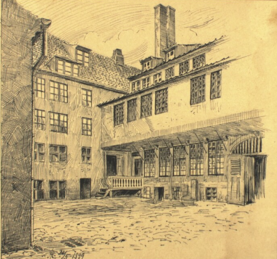 Strandgade 32 in Copenhagen, Denmark